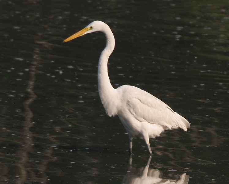 Eastern Great Egret Ardea modesta in Kolkata, West Bengal, India.